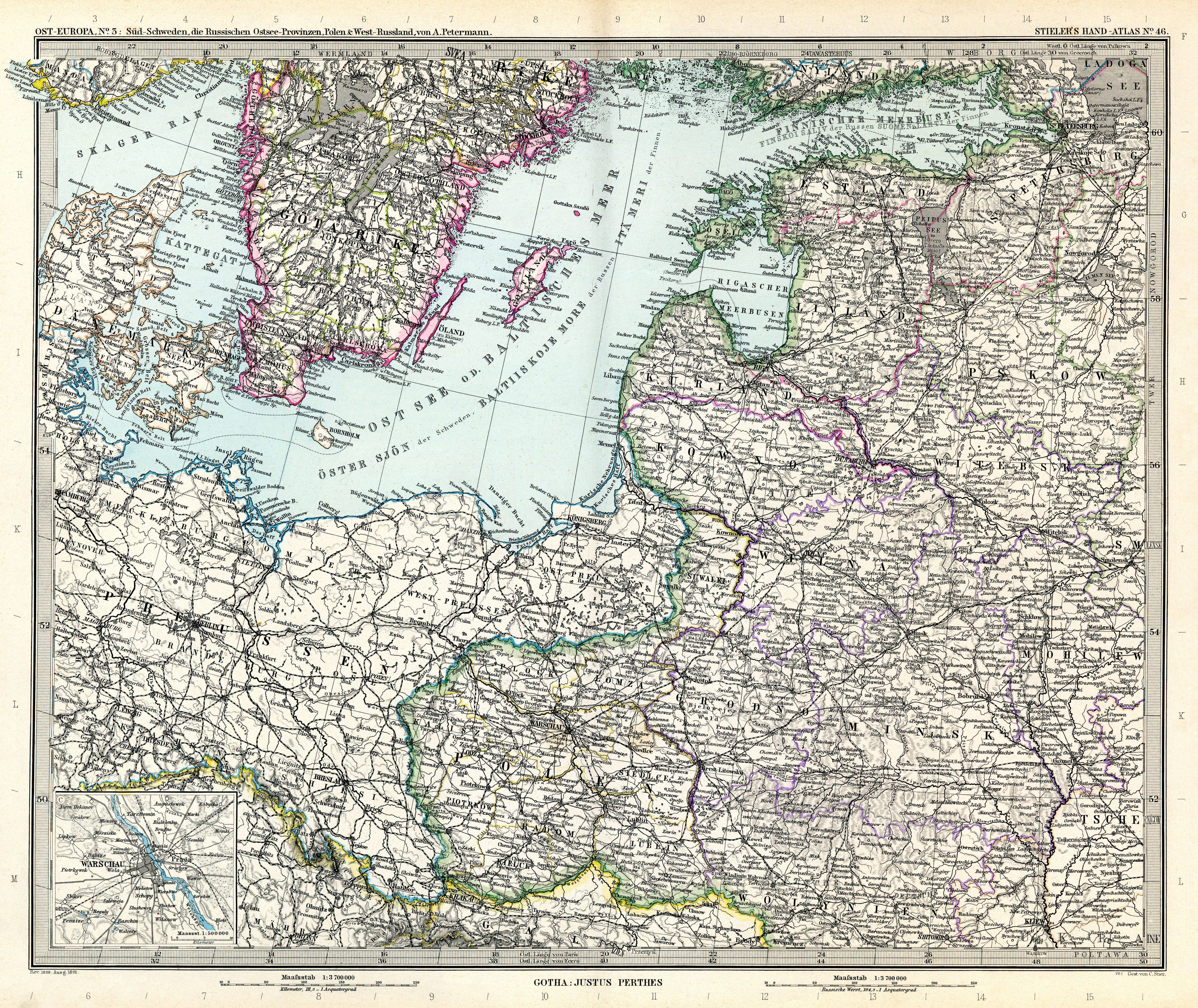 East Europe, no. 2: south Sweden, the Russian Baltic provinces, Poland and west Russia